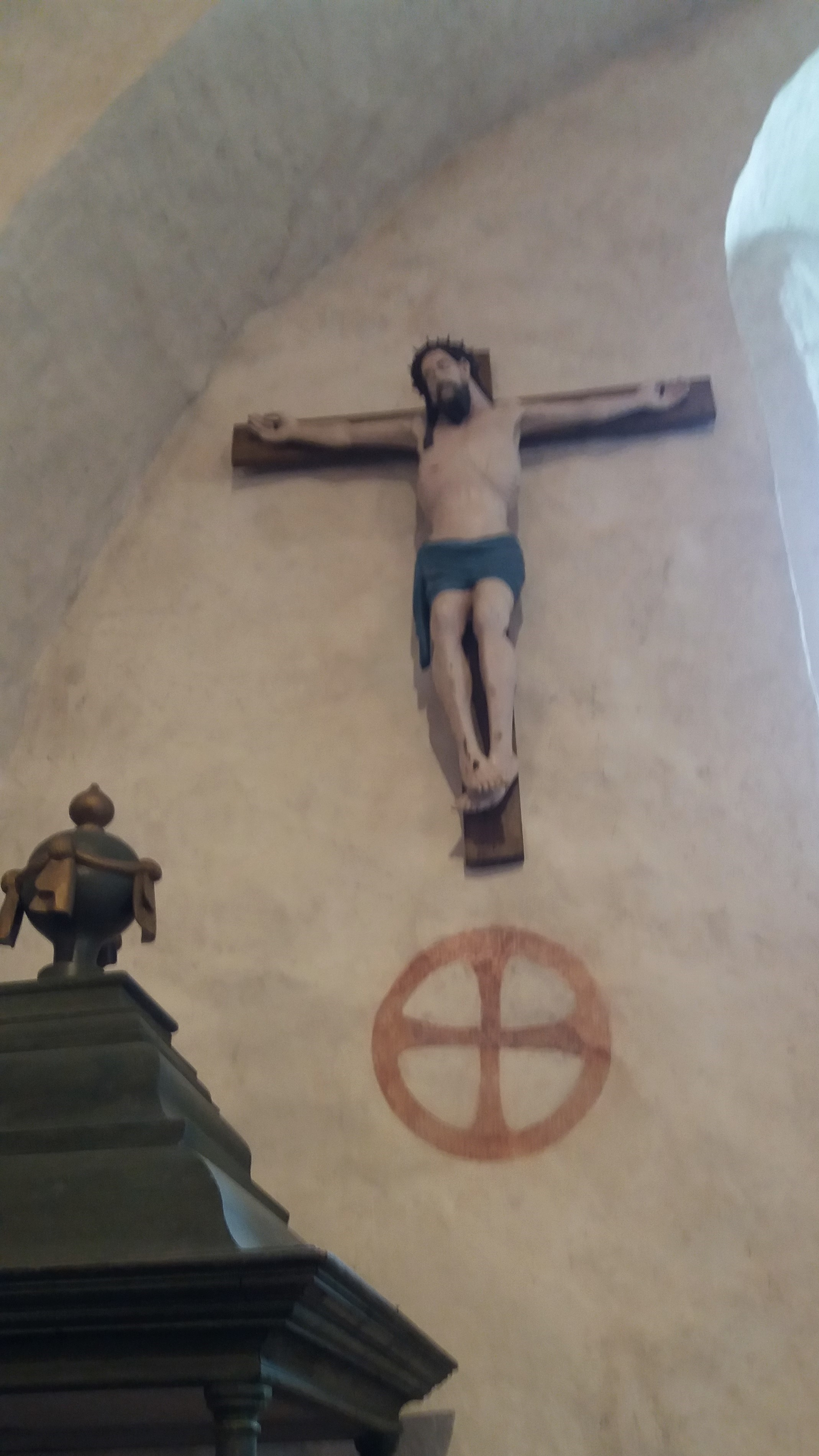 1430s crucifix of the Medieval St. Olof's Church, Ulvila, Finland.